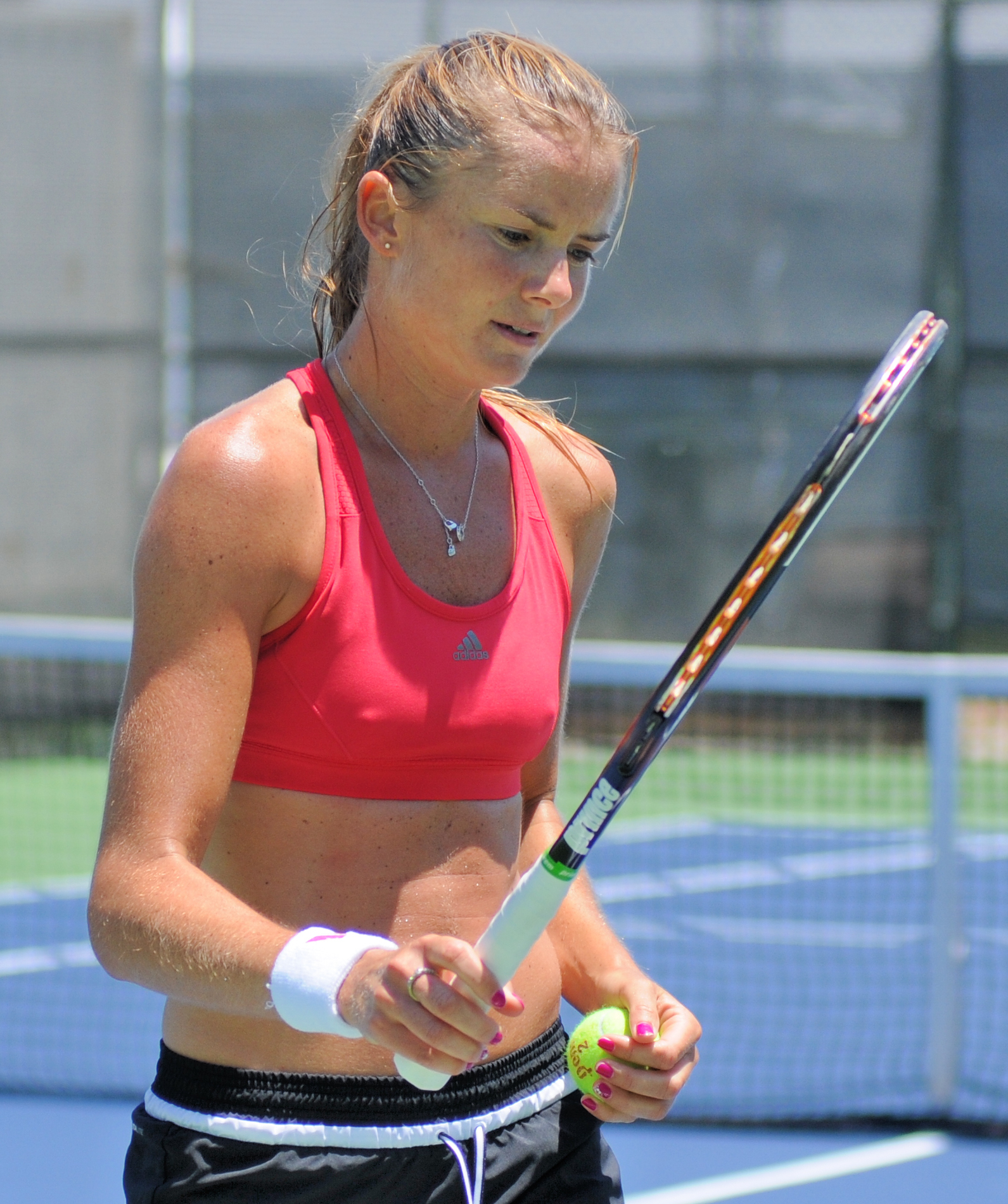 Mercury Insurance Open 2012